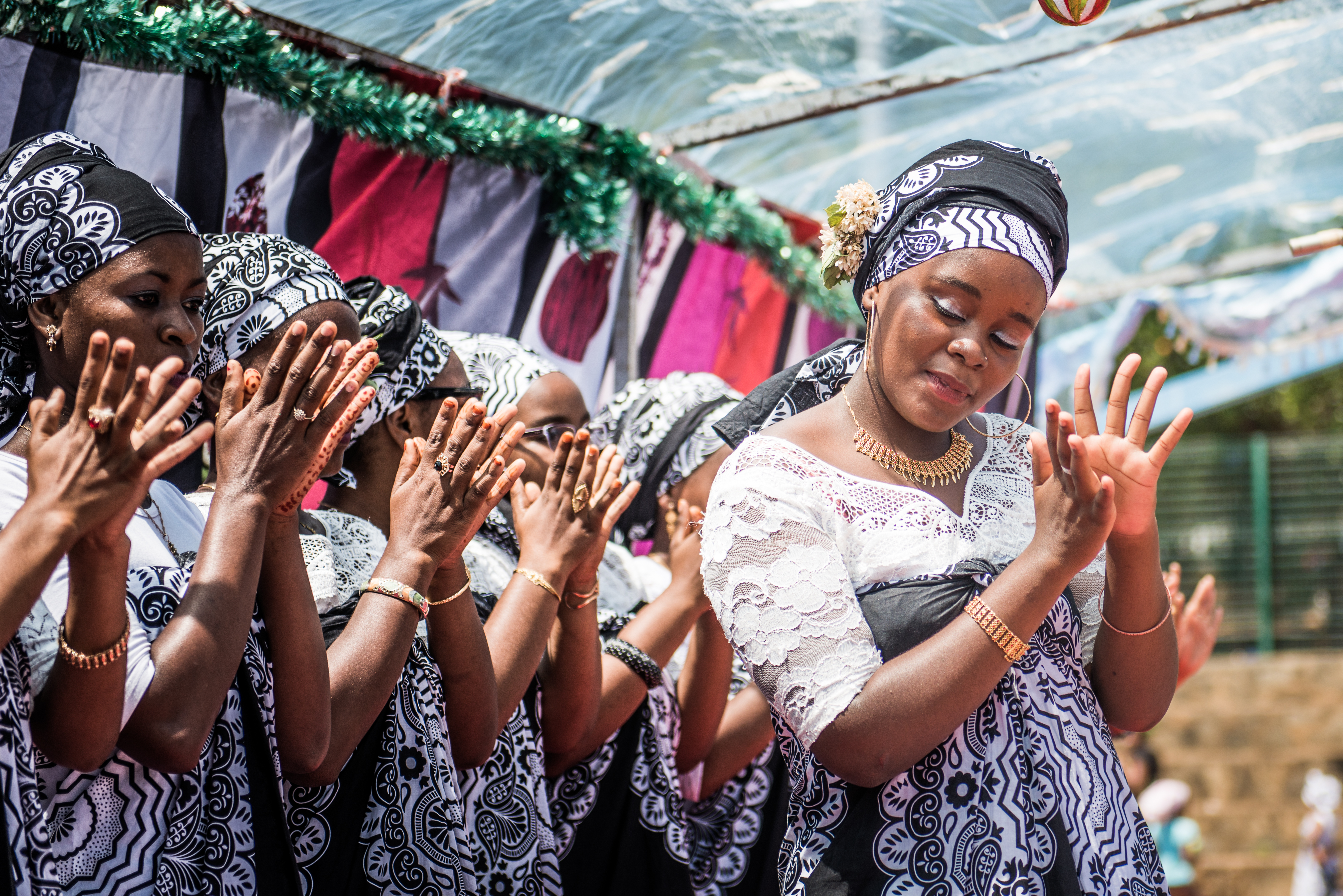 Debaa in Mayotte, France. Debaa is a traditional dance from Mayotte, reserved exclusively for women.